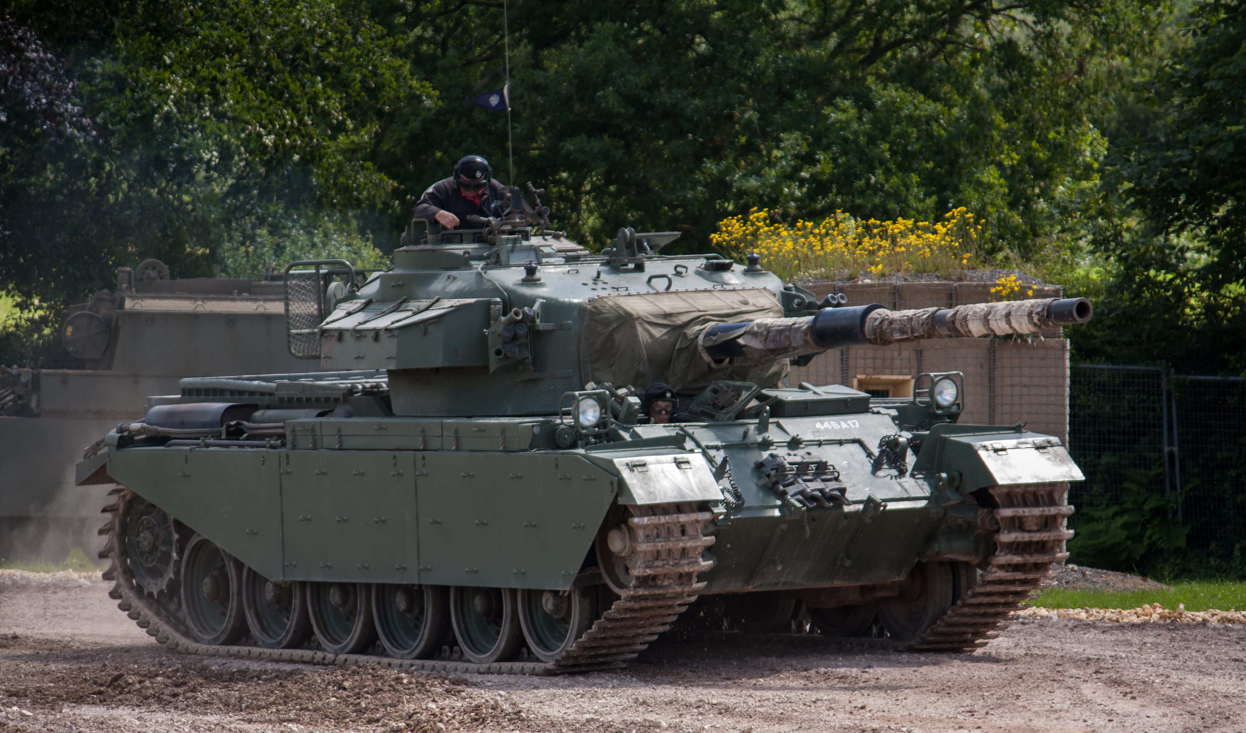 Centurion Mk 12